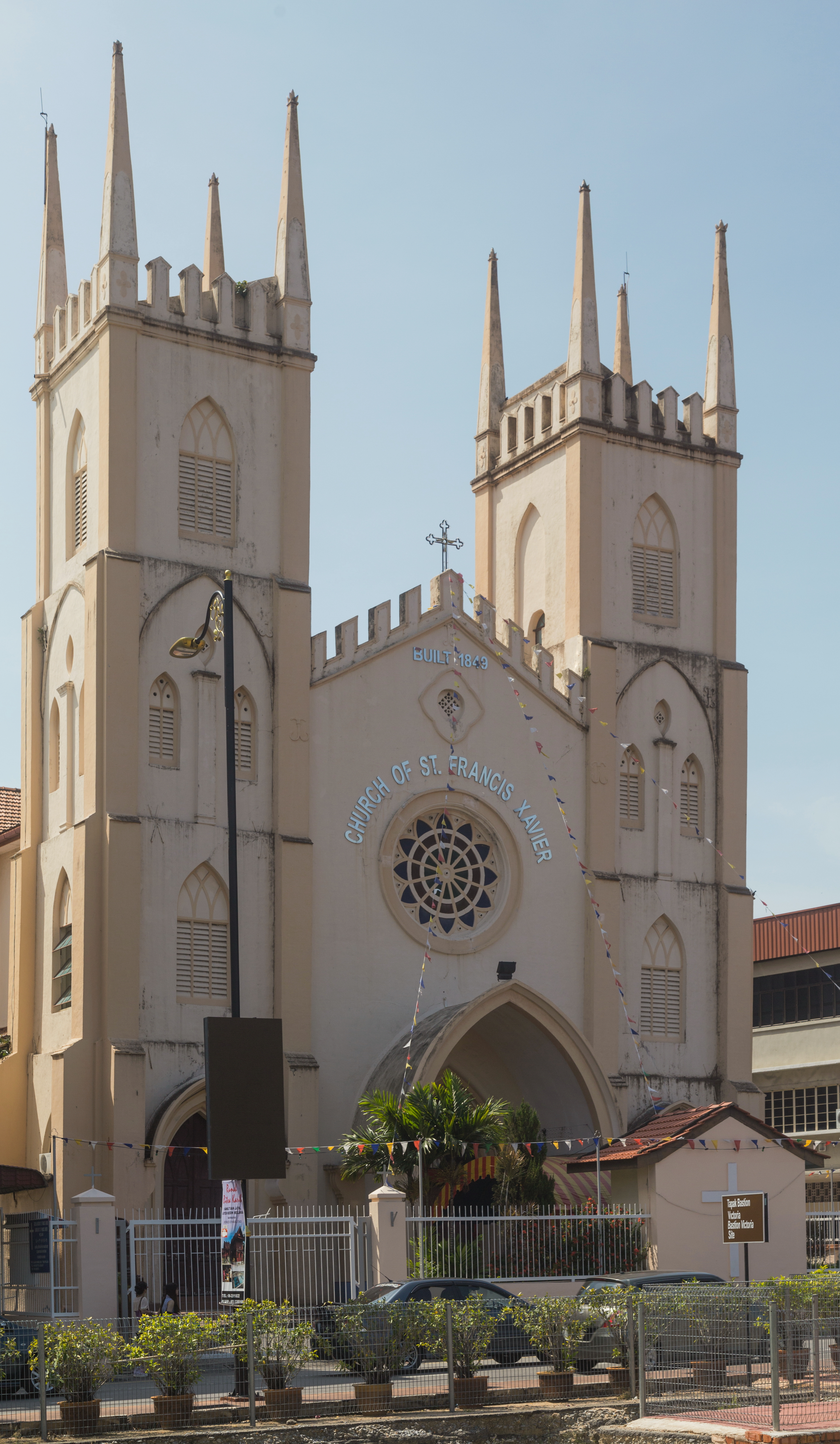 Church of St. Francis Xavier. Malacca City, Malacca, Malaysia.